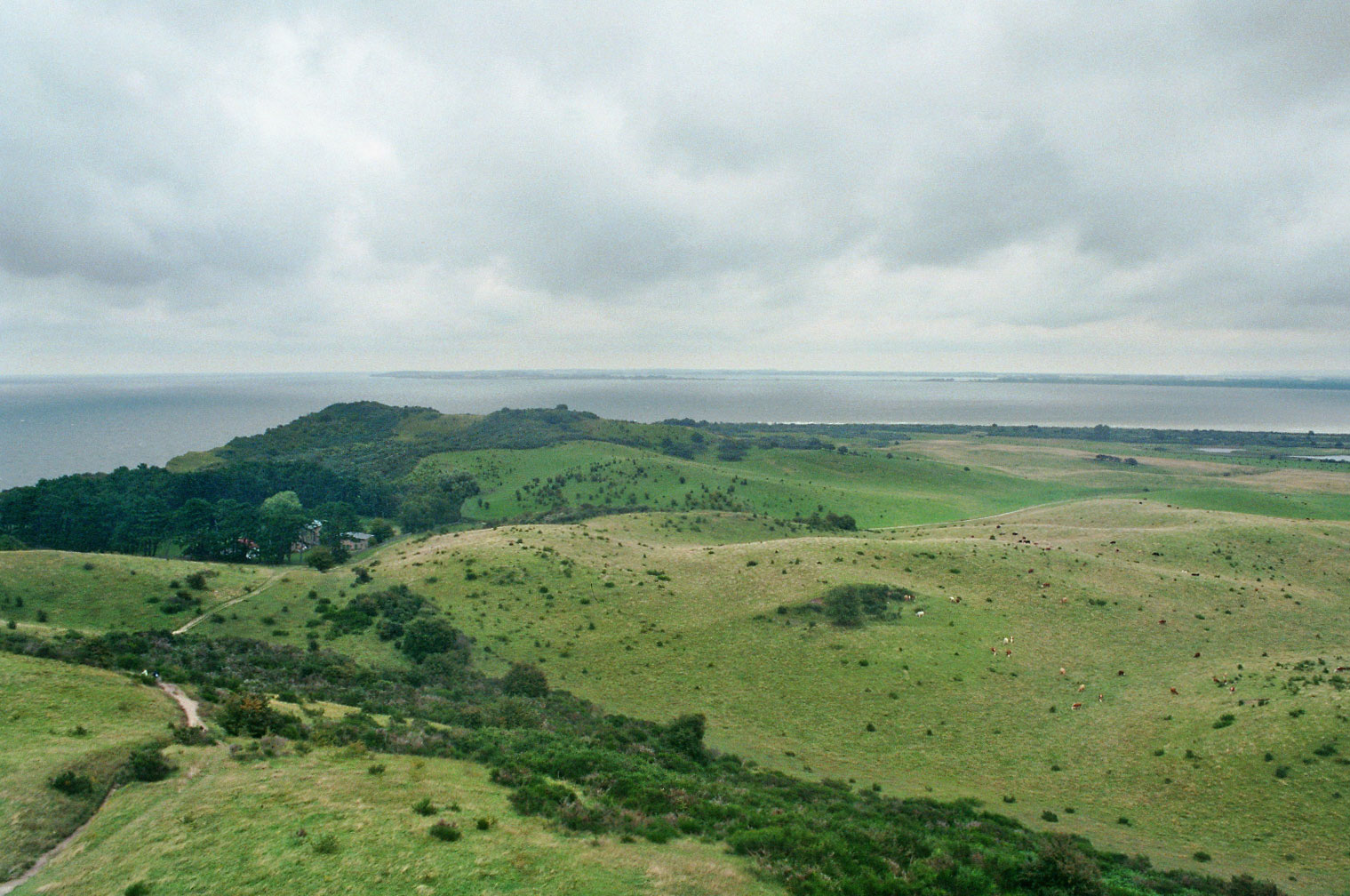 Landscape of northern Hiddensee.